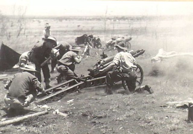 Gunners from the Australian 2nd Mountain Battery firing a 75 mm pack howitzer in practice near Nadzab, New Guinea, September 1944